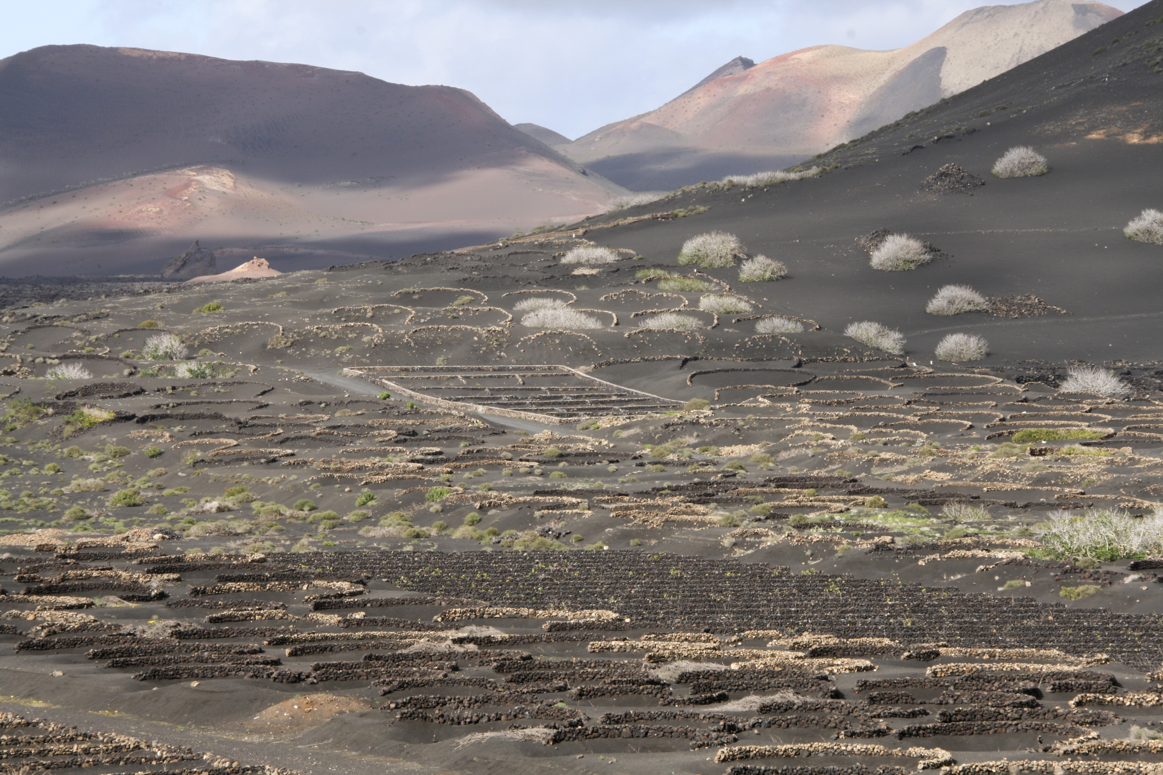 A view of the volcanic island of Lanzarote in the Spanish wine region of the Canary islands. The half-circles are low stone walls around hollow dug outs that protect grapevines from the strong winds of the island.